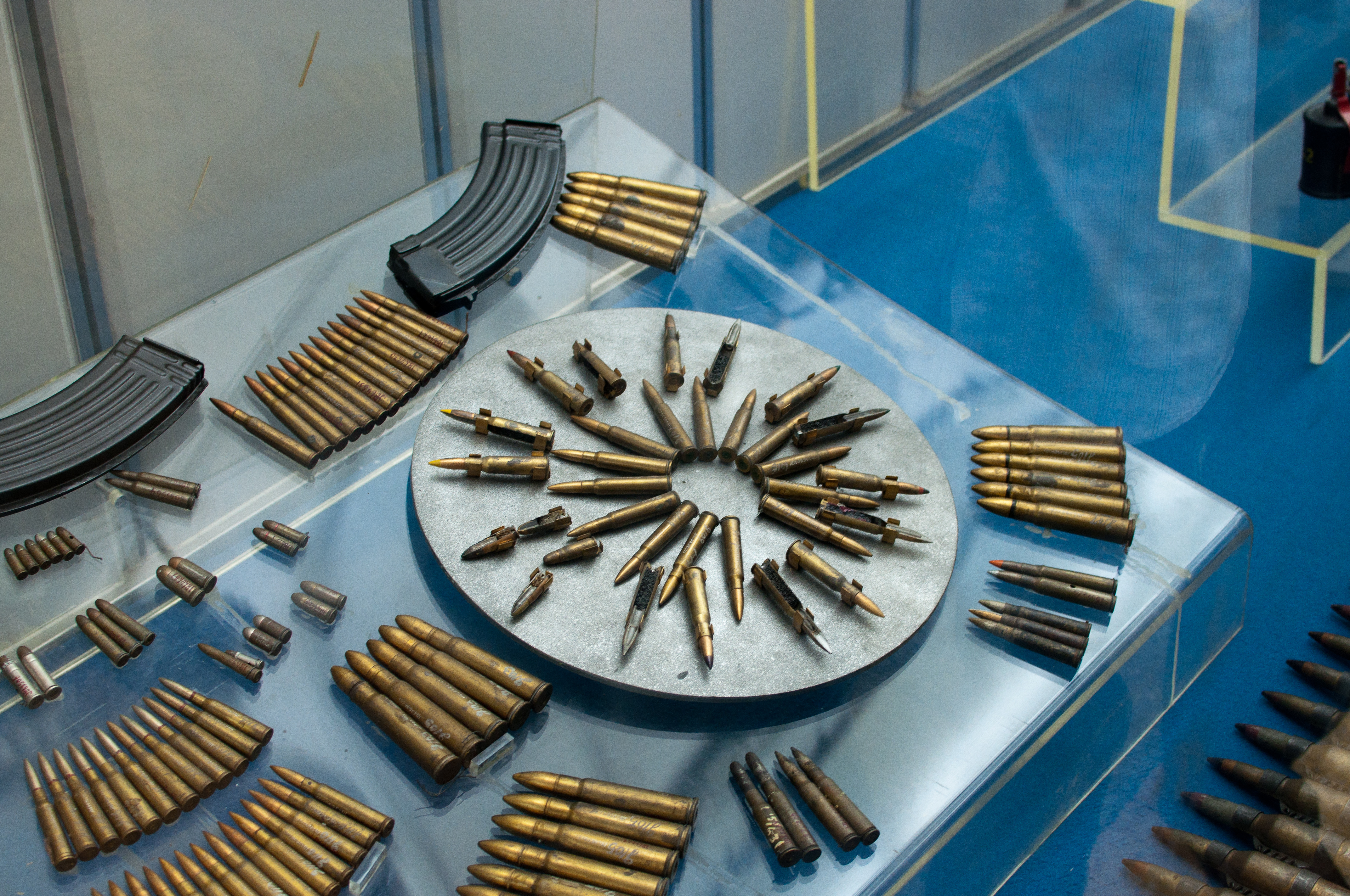 Chinese ammunition in the Military Museum of the Chinese People's Revolution.